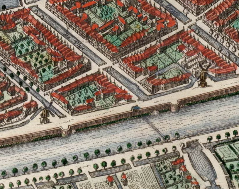 This file has been extracted from another file: LeidenBlaeu.jpg Detail of the map of Leiden by J. Blaeu (1649) showing the Vreewijk